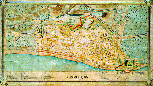 Painted map of Reggio Calabria in the XVIII century